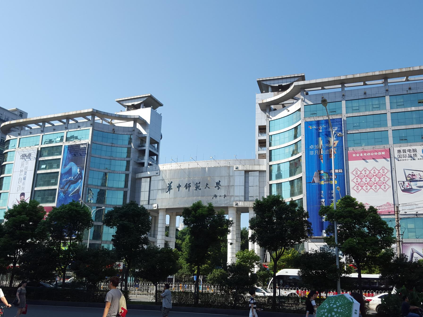 North Gate of Central China Normal University